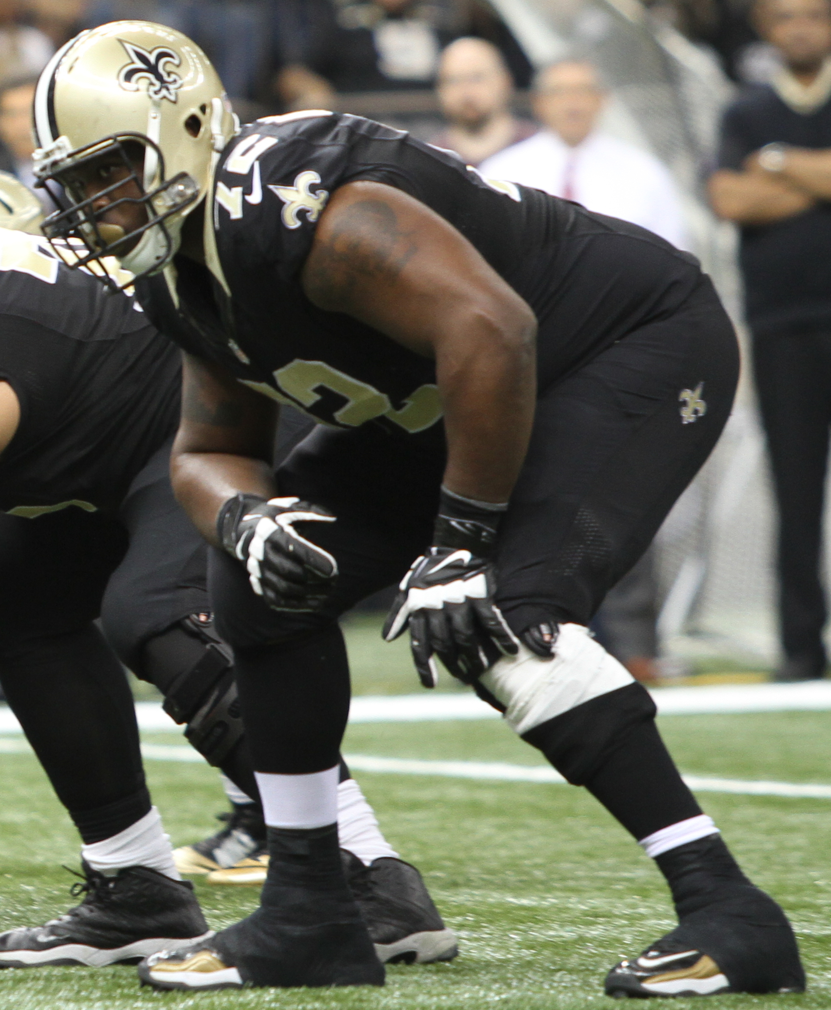 New Orleans Saints vs Carolina Panthers, December 6, 2015, Tammy Anthony Baker, Photographer